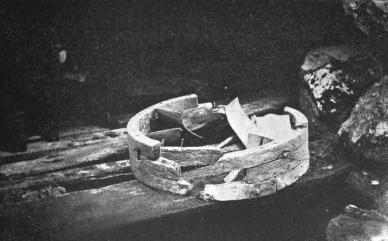 Photograph of a tub wheel from "Bow, N.H.", described as being very similar to the descriptions of the "wry fly" patented by Benjamin Tyler in 1800 and 1804, in Safford, Arthur T.; Hamilton, Edward P. (1922), "The American Mixed-Flow Turbine and Its Setting", Transactions of the American Society of Civil Engineers 48:4, p. 790. From page 1173/1464 of the Google Books PDF.